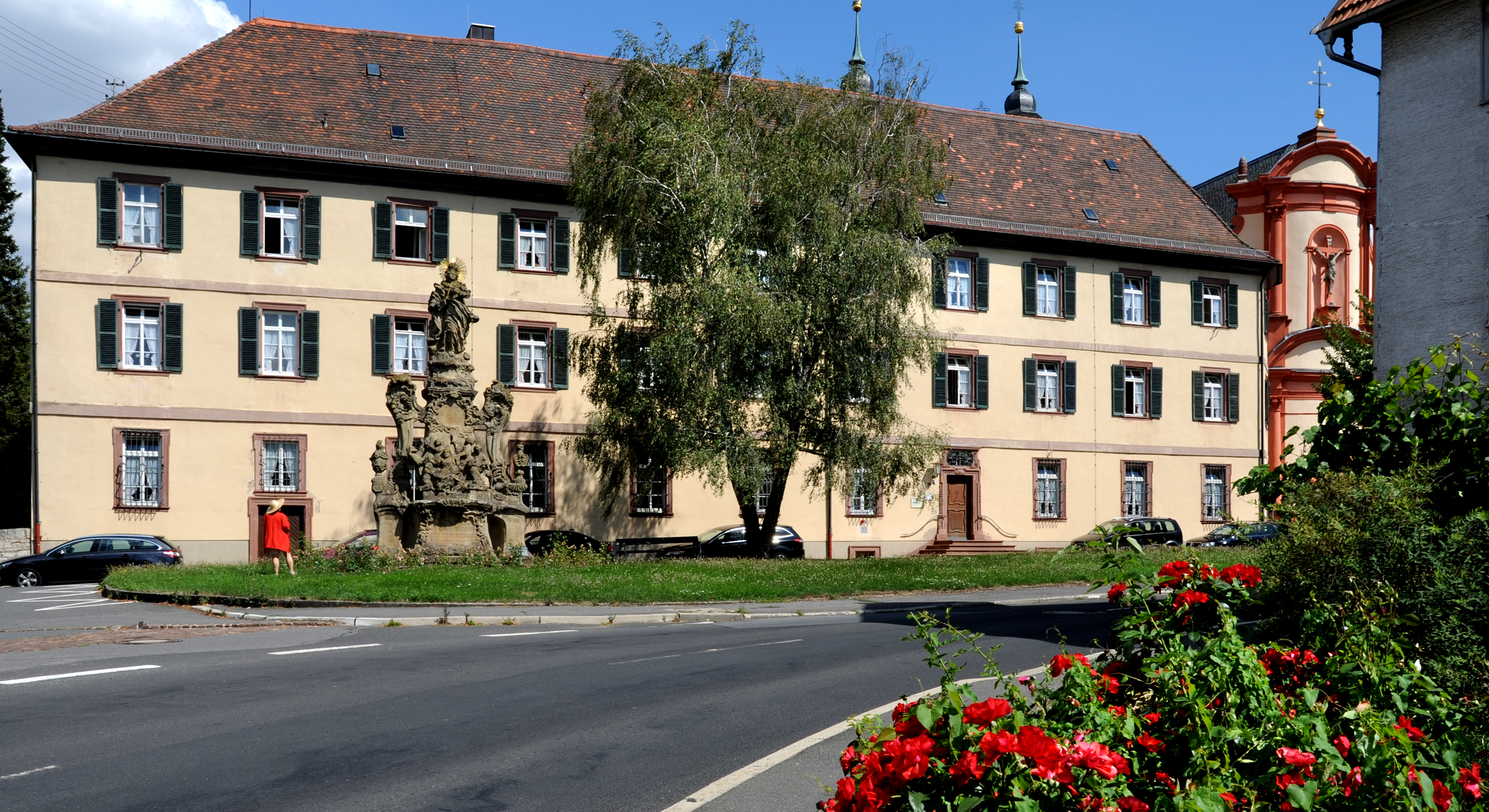 Gerlachasheim, a pretty wine village.